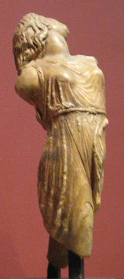 Dancing maenad of Scopas. Plaster cast in Pushkin museum after original in Dresden.